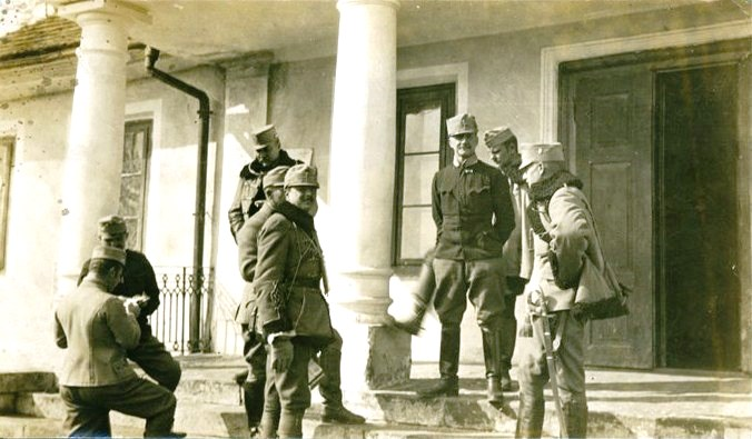 Austro-Hungarian hussars in 1914